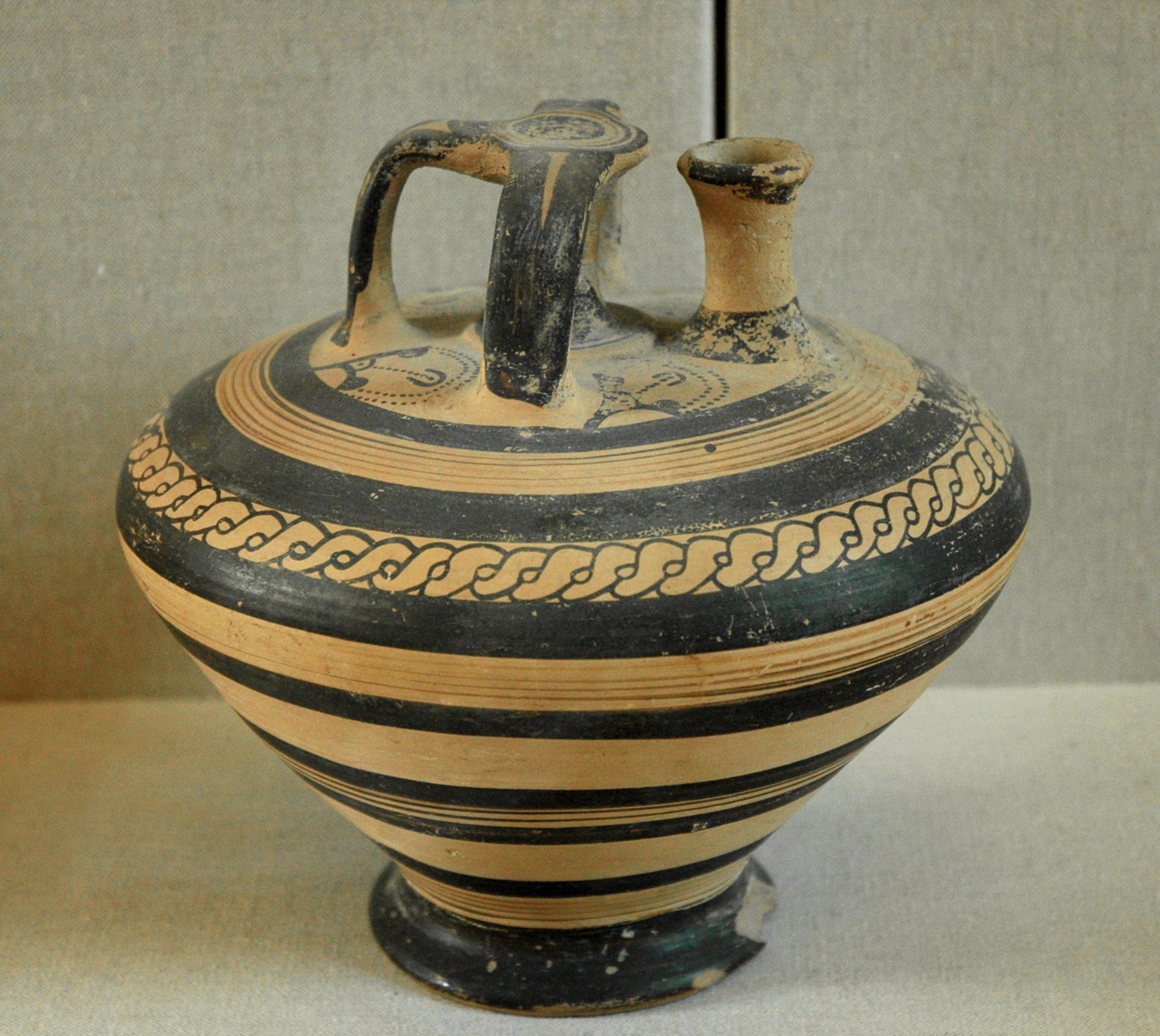 Mycenaean stirrup vase, 14th-13th centuries BC, imported to Ugarit. Found in the acropolis of Ras Shamra (ancient Ugarit), tomb 37.